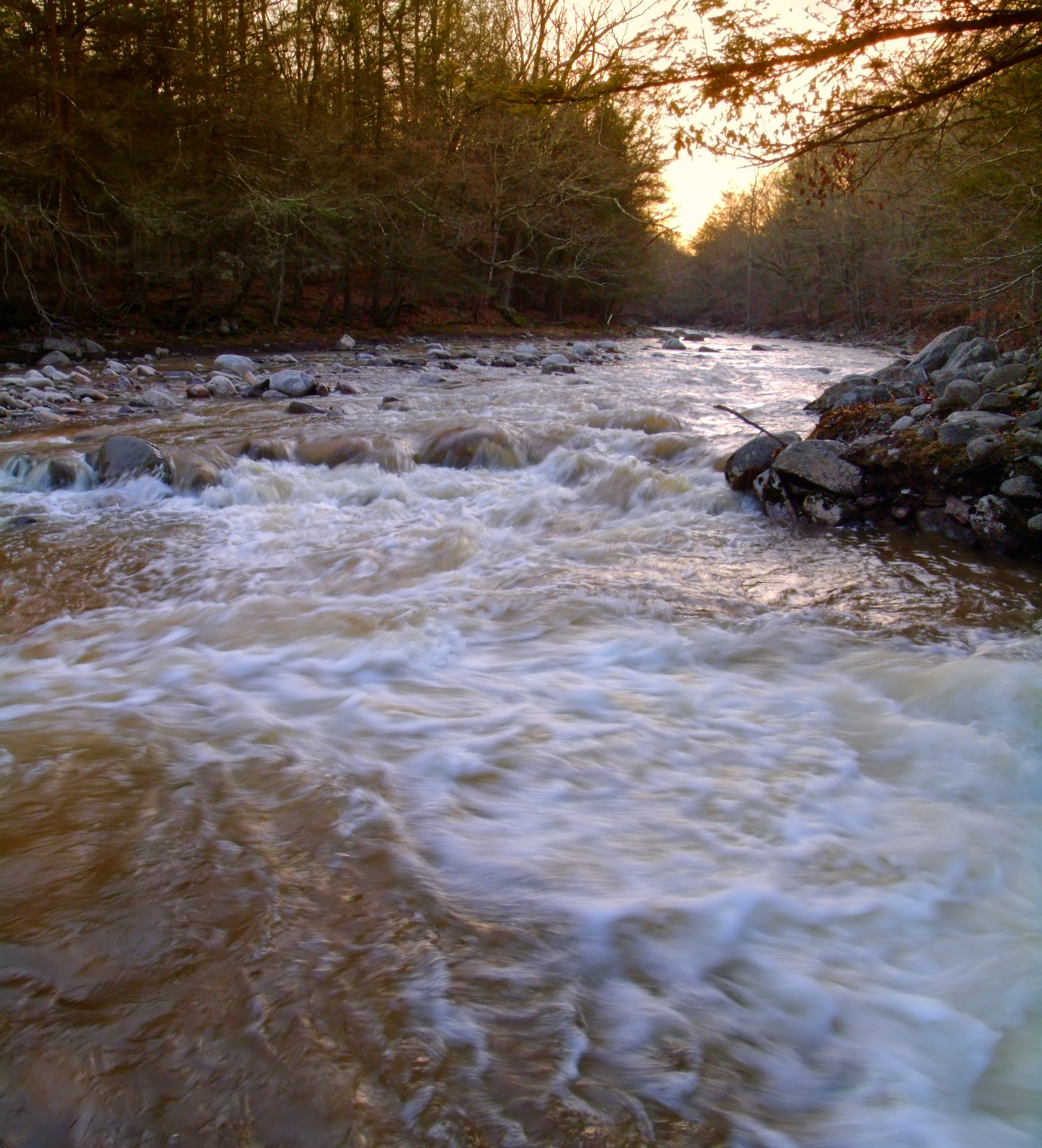 Mehoopany Creek, Wyoming County, within State Game Land 57.